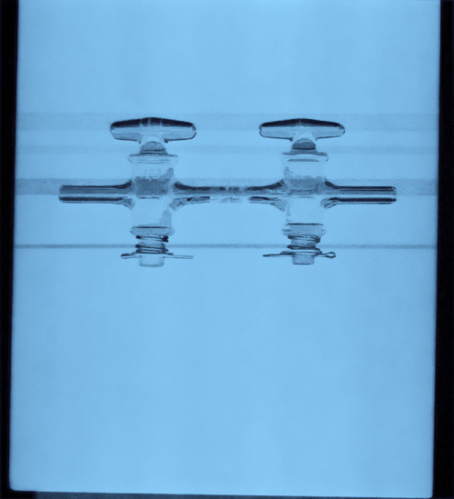 Work by artist Jugnet + Clairet. Acrylic on canvas, phosphorescent blue (142,25 x 129,5 cm - 56 x 51 in.)